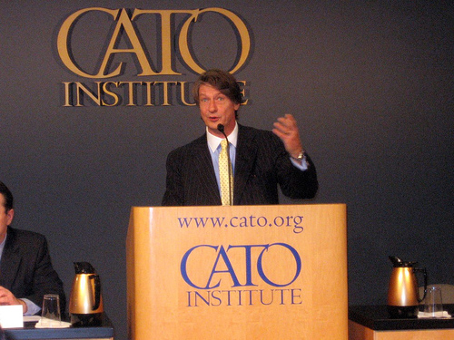 American political satirist and author P. J. O'Rourke.